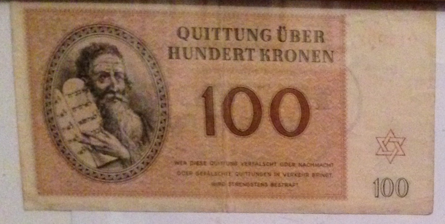 100 Kronen note from Theresienstadt concentration camp